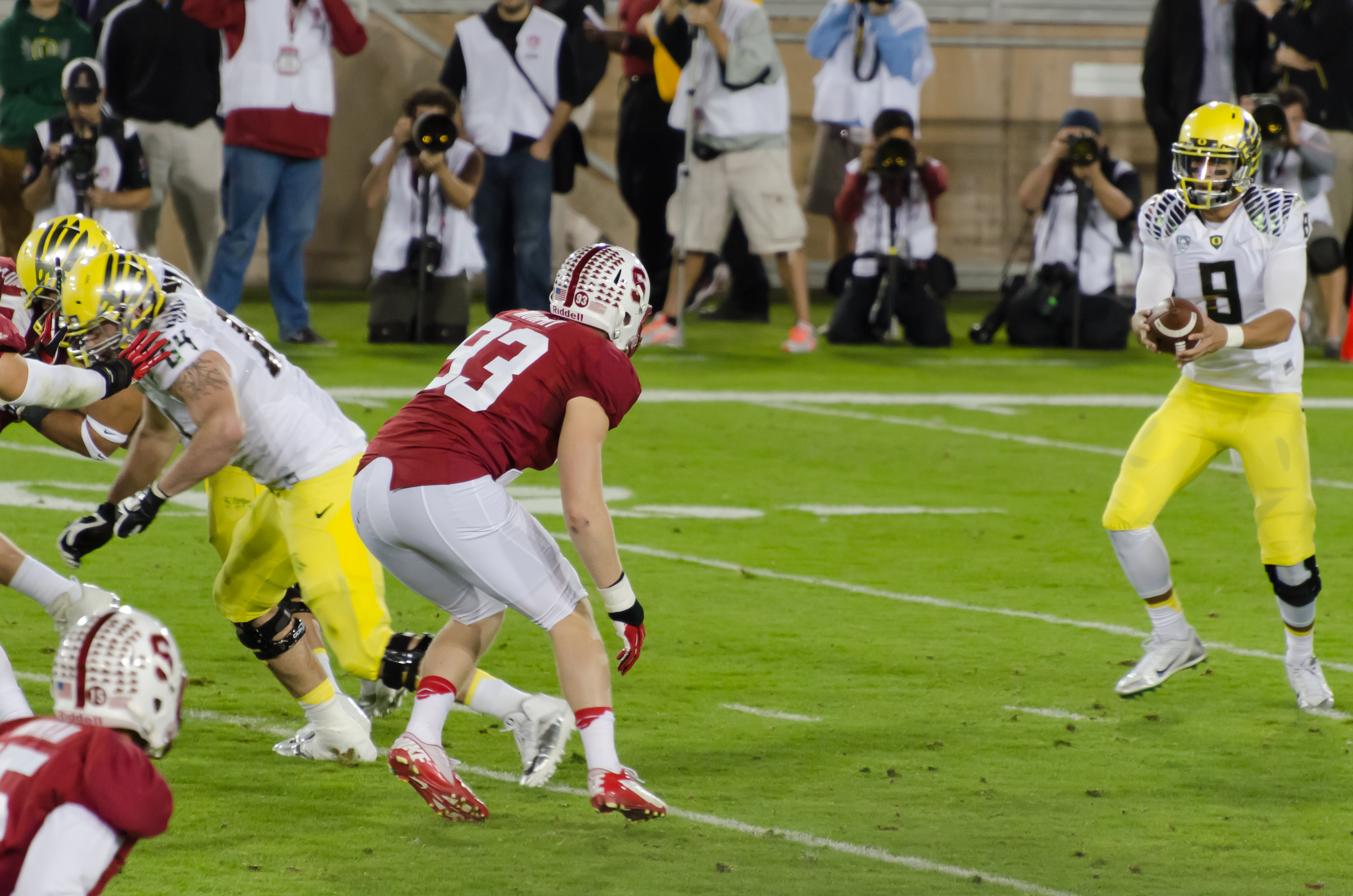 Trent Murphy applies pressure on Marcus Mariota